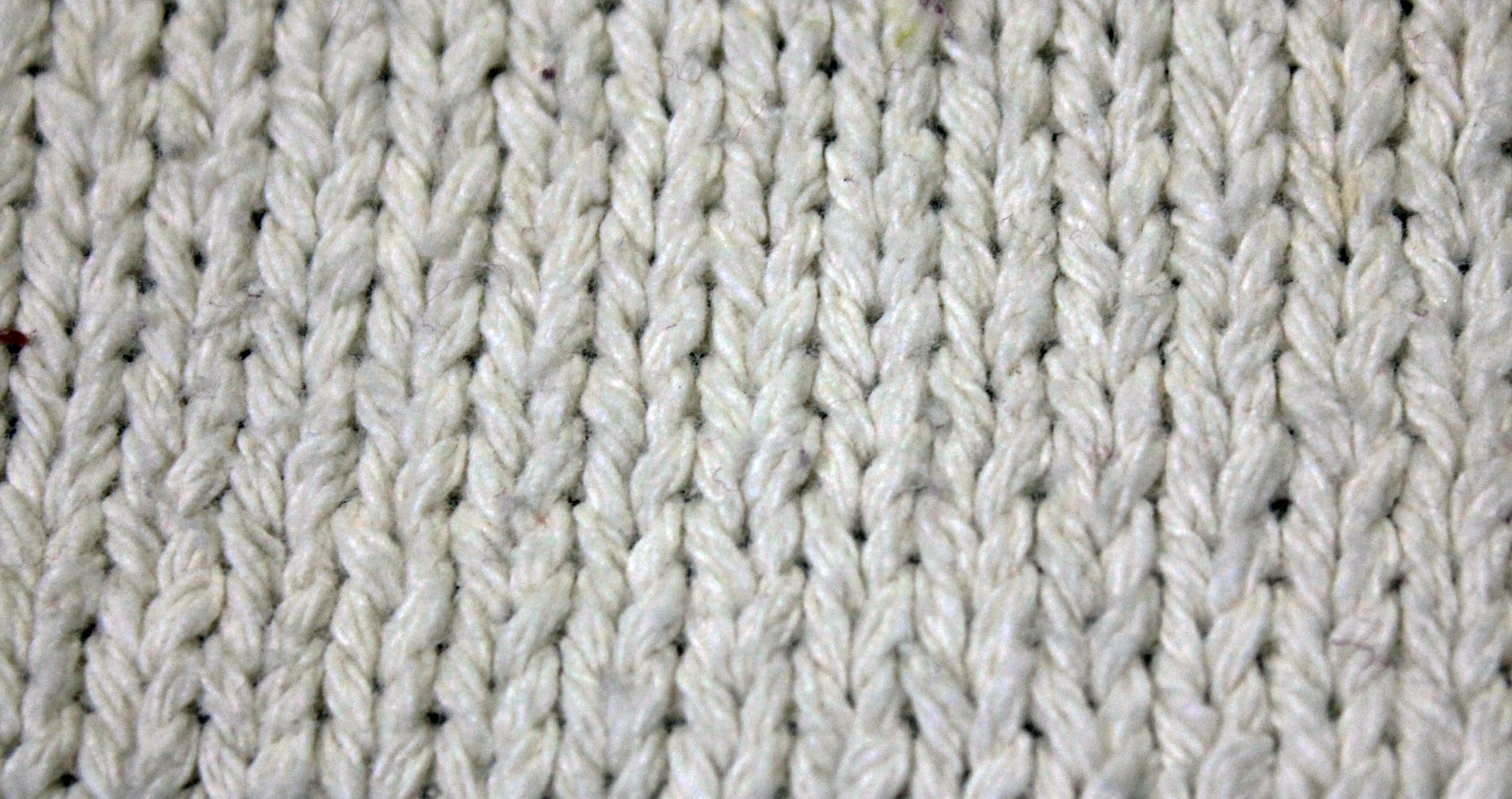 Textures and Patterns A pattern of white yarn